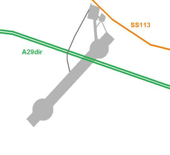 Map of the "closed" Milo Airport in Sicily with motorway running across the runway.